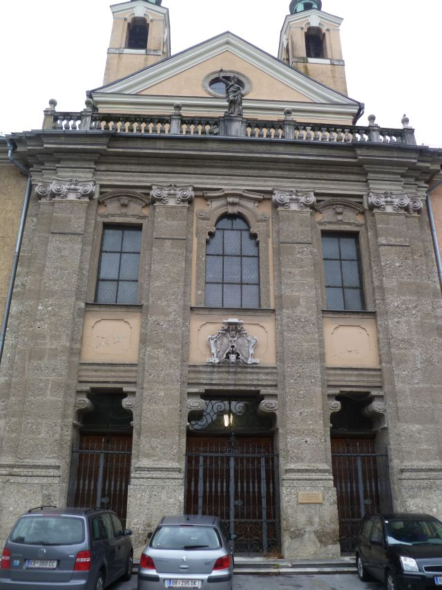 St. Johanns-Kirche (Saint John's Church) in the Salzburg State Hospital, Salzburg, Austria.